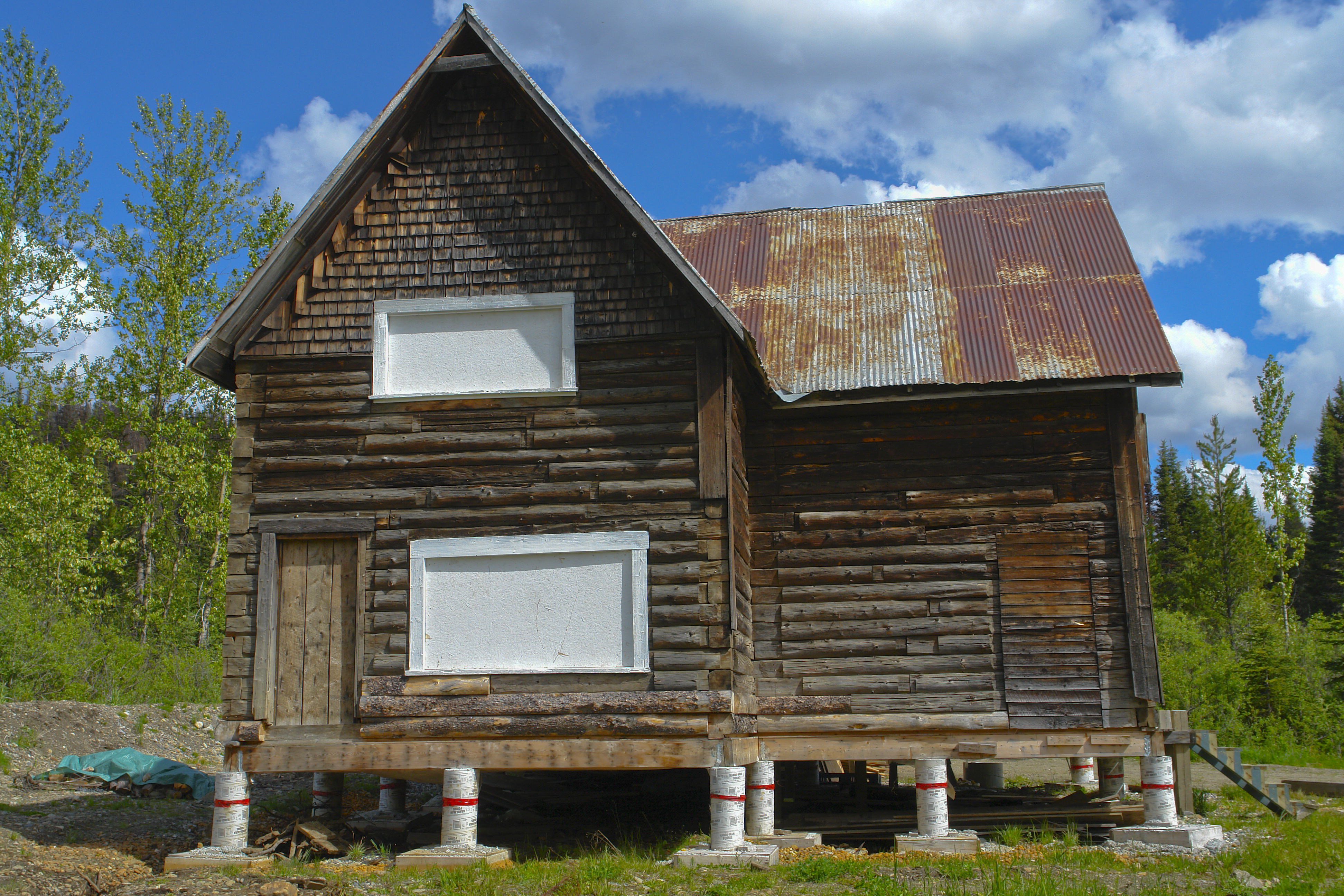 Stanley House